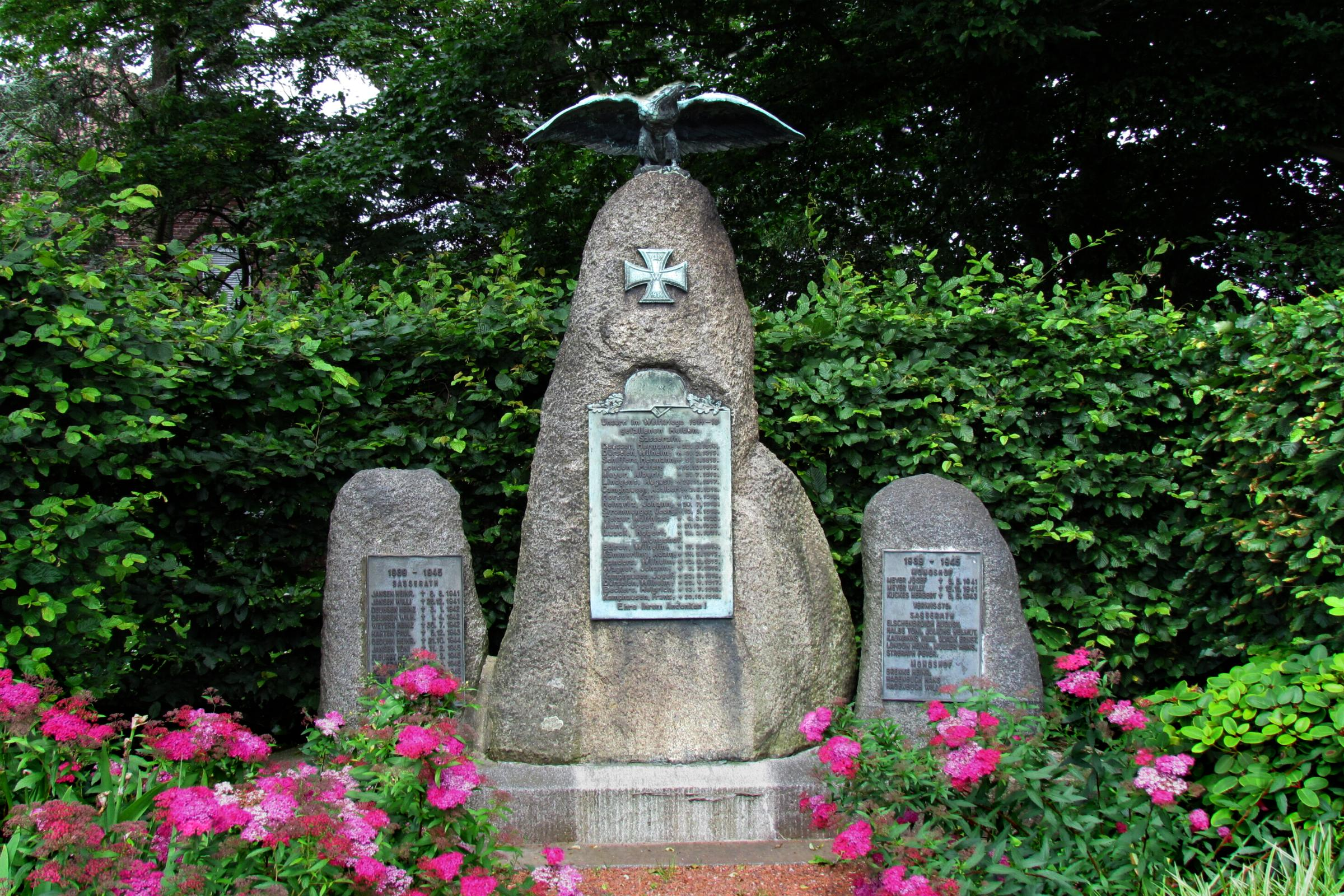 Gedenkstätte u. Ehrenmal in Mönchengladbach This is a photograph of an architectural monument. 097